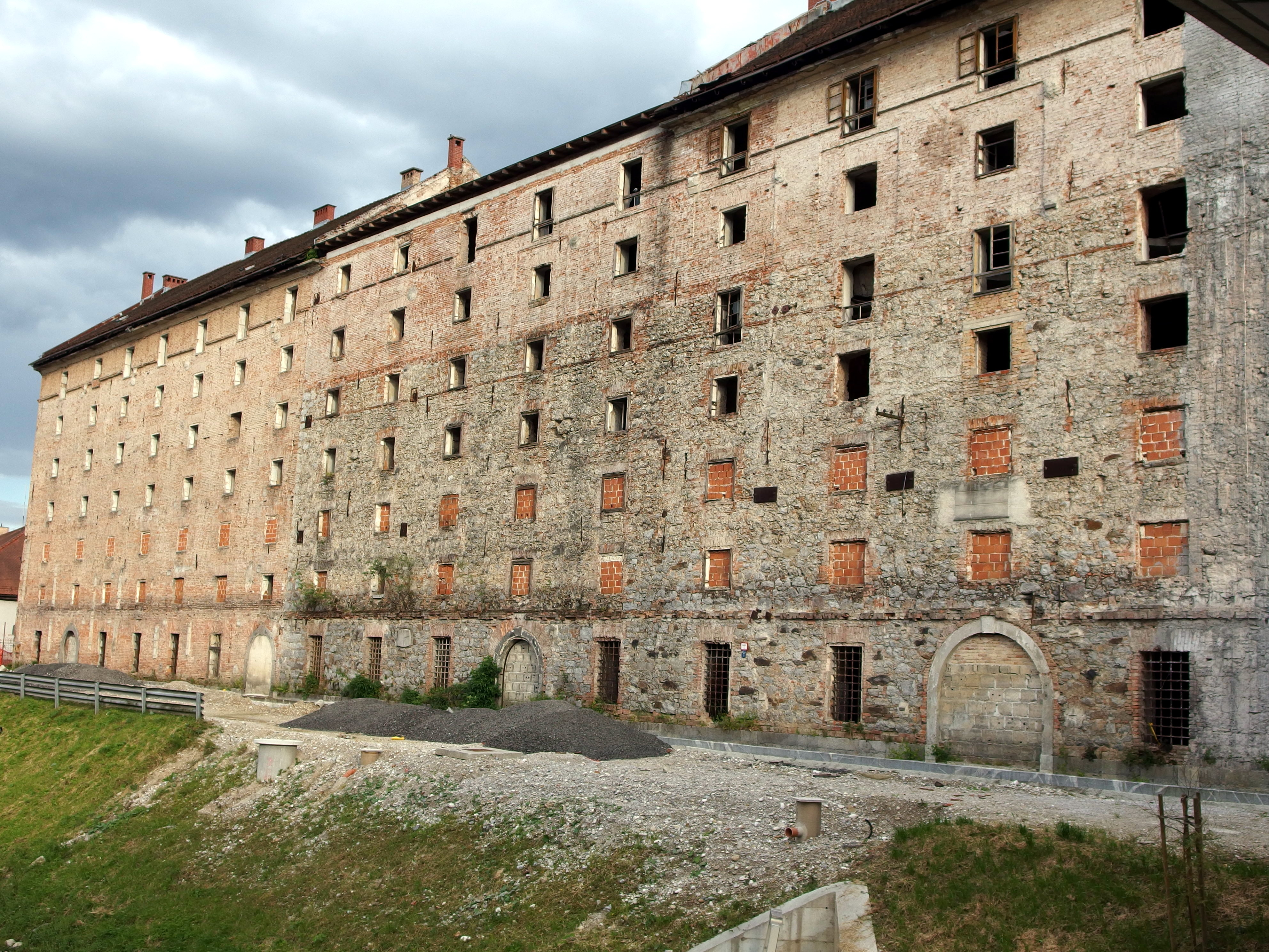 2013-05-28 in Ljubljana.